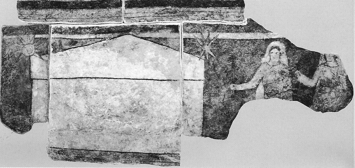 Women at the Tomb of Christ. Wall painting in the domus ecclesiae in Dura Europos.